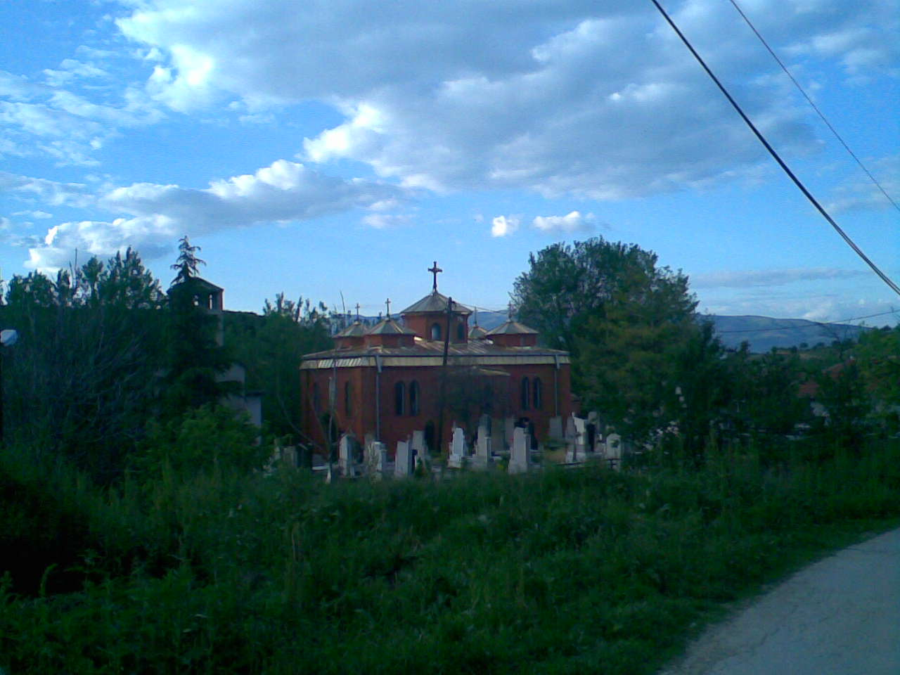 Church Sv.Atanasij, in the village of Usje (Skopje region), Macedonia